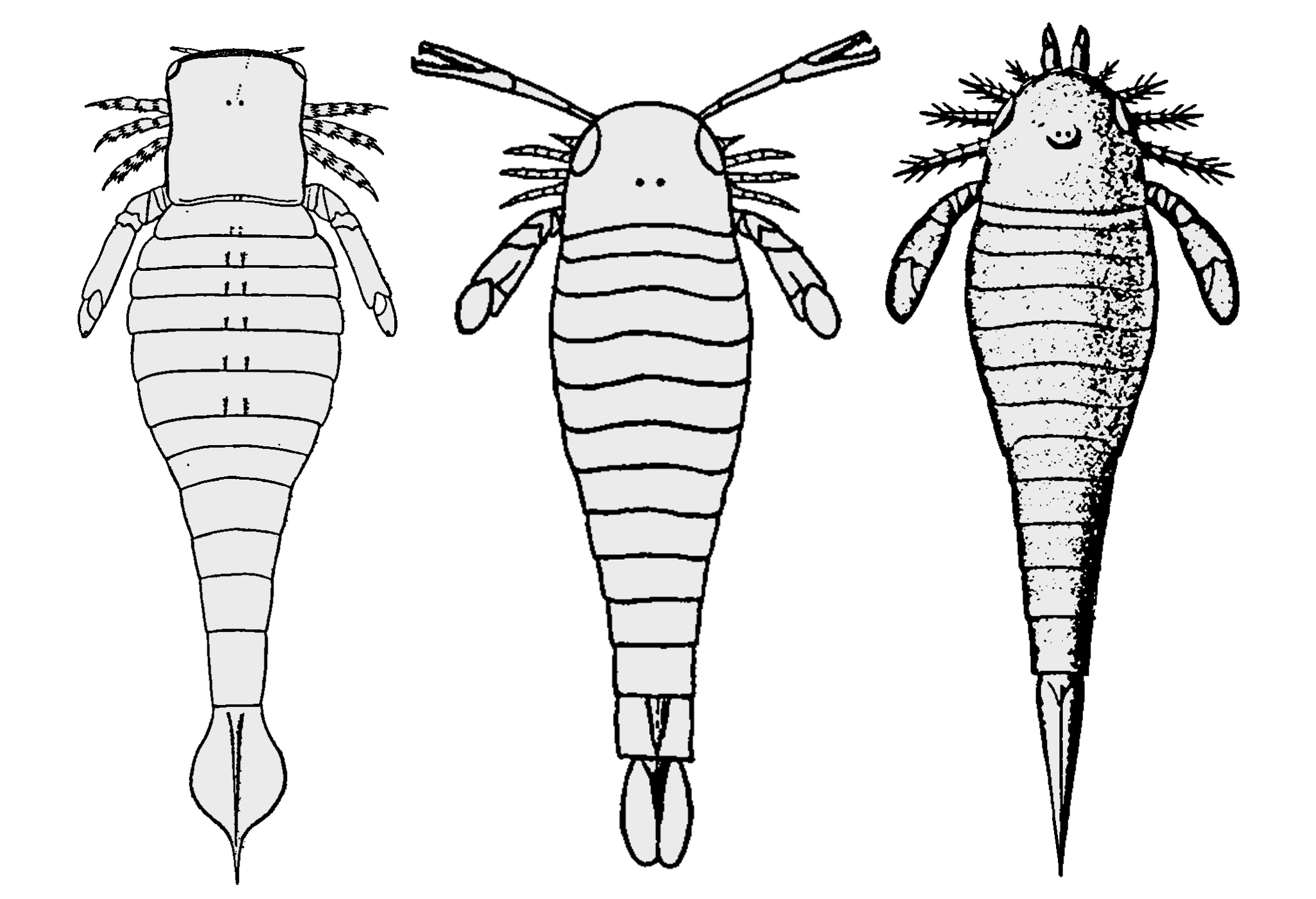 Three pterygotioid genera (not to scale), representing the three families included in the superfamily; Slimonia (Slimonidae), Hughmilleria (Hughmilleriidae) and Erettopterus (Pterygotidae). These images are also available individually; Erettopterus: Slimonia: and Hughmilleria